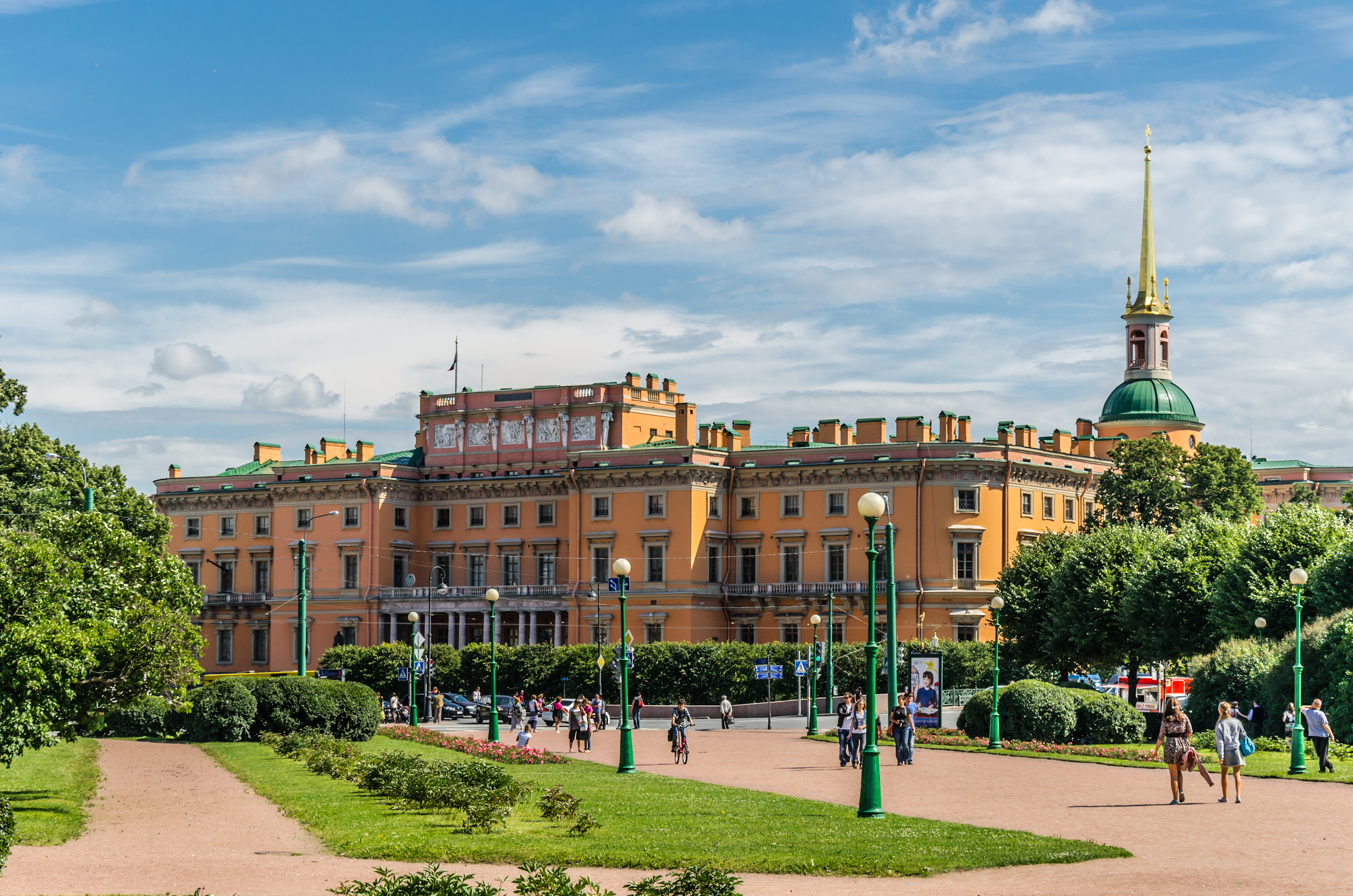 View to Saint Michael's Castle from the Field of Mars. Saint Petersburg